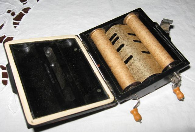 Rolmonica, Automatic harmonica with paper rolls